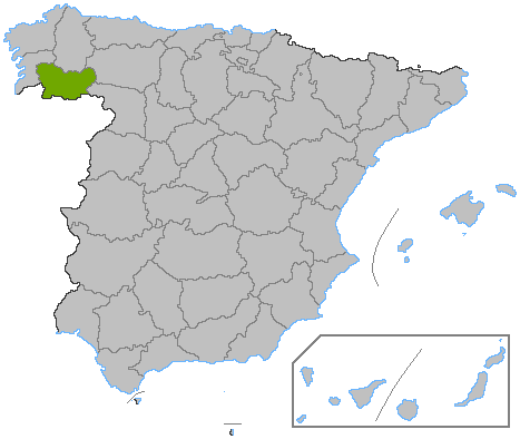 Location of the province of Orense, in Spain. Basado en: ProvPont.jpg